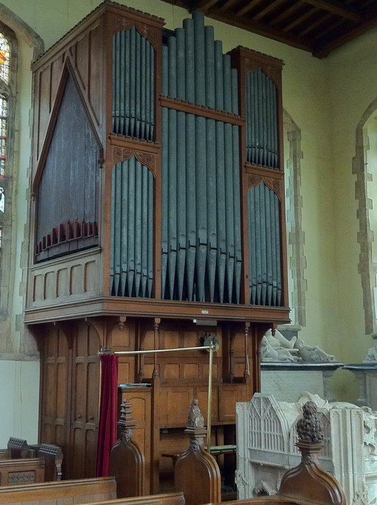 Organ by Wordsworth and Maskell in St Peter's Church, Lowick, Northamptonshire